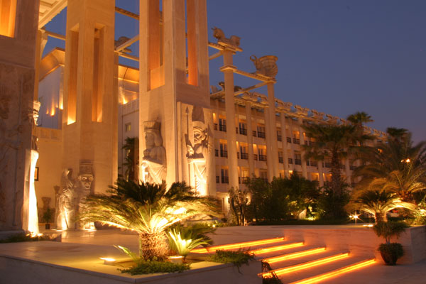 Darius Hotel in Kish island, Persian Gulf, Iran.